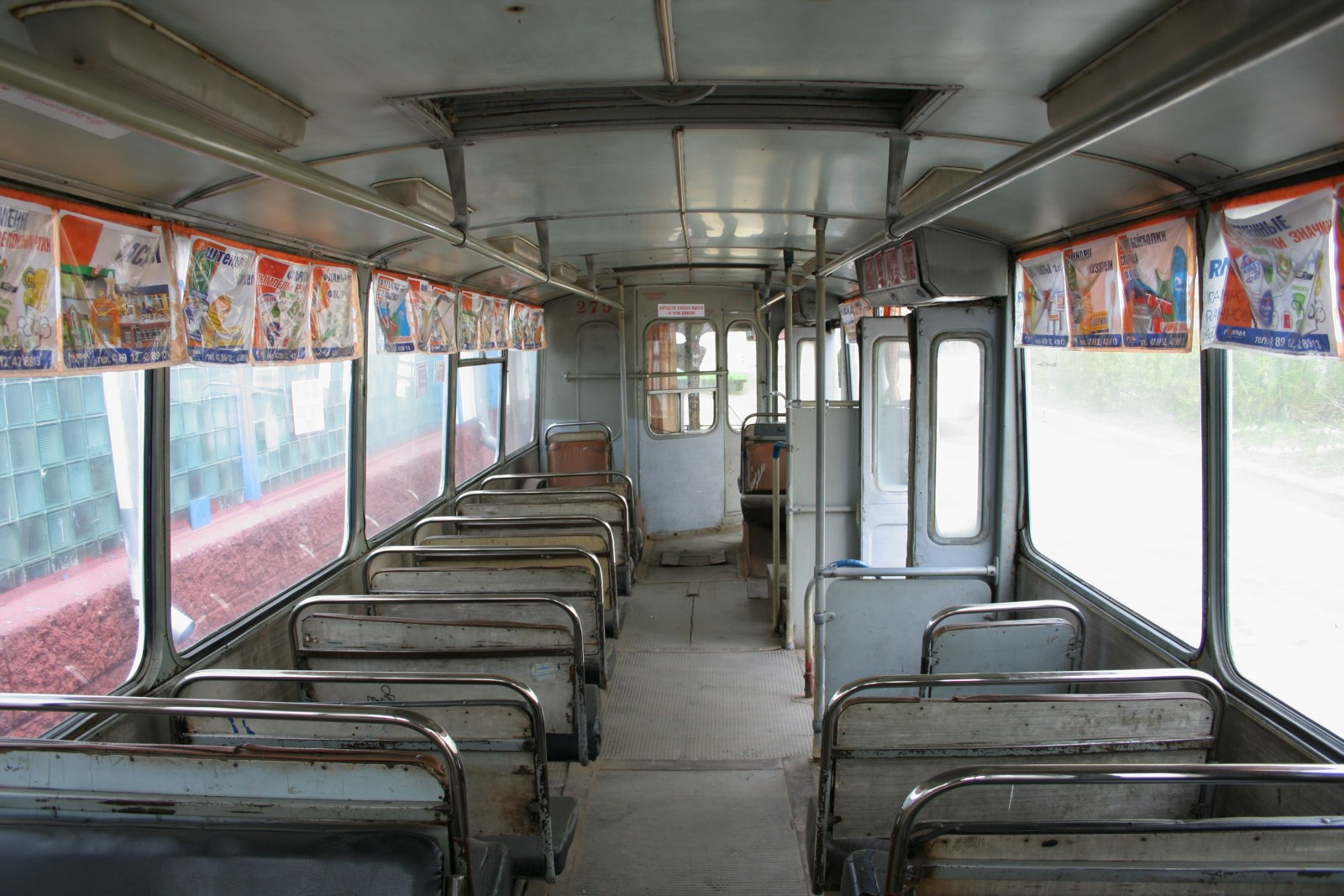 Tomsk trolleybus ZiU-682V No. 279. Passenger compartment.